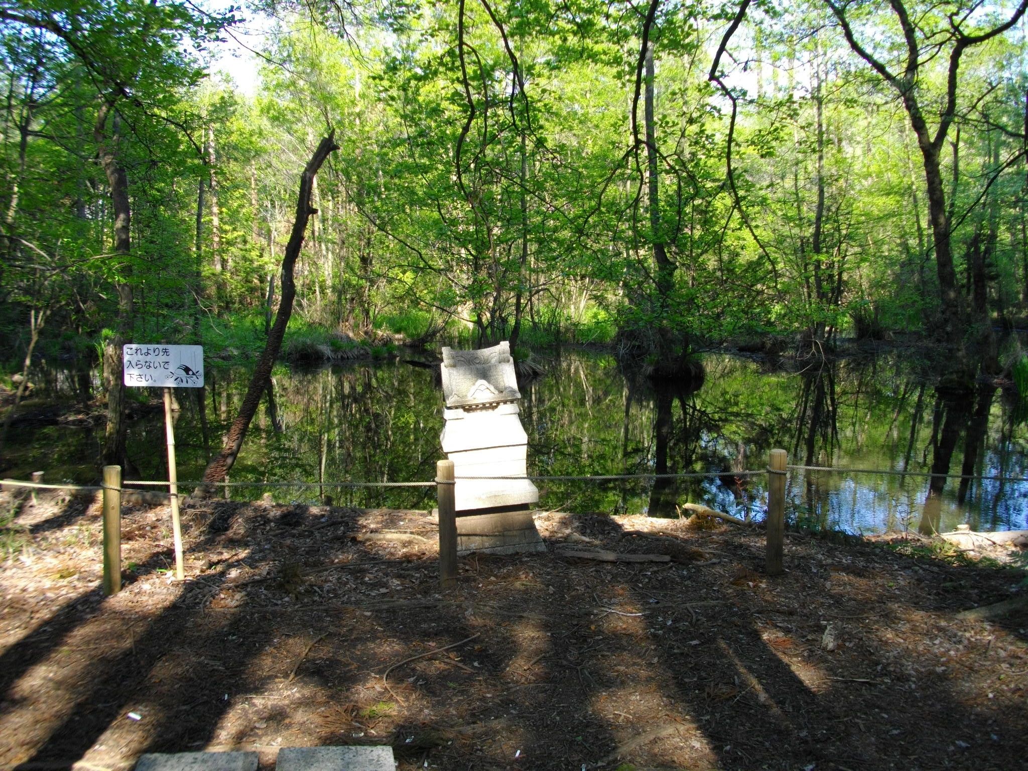 Kombukuro Ike